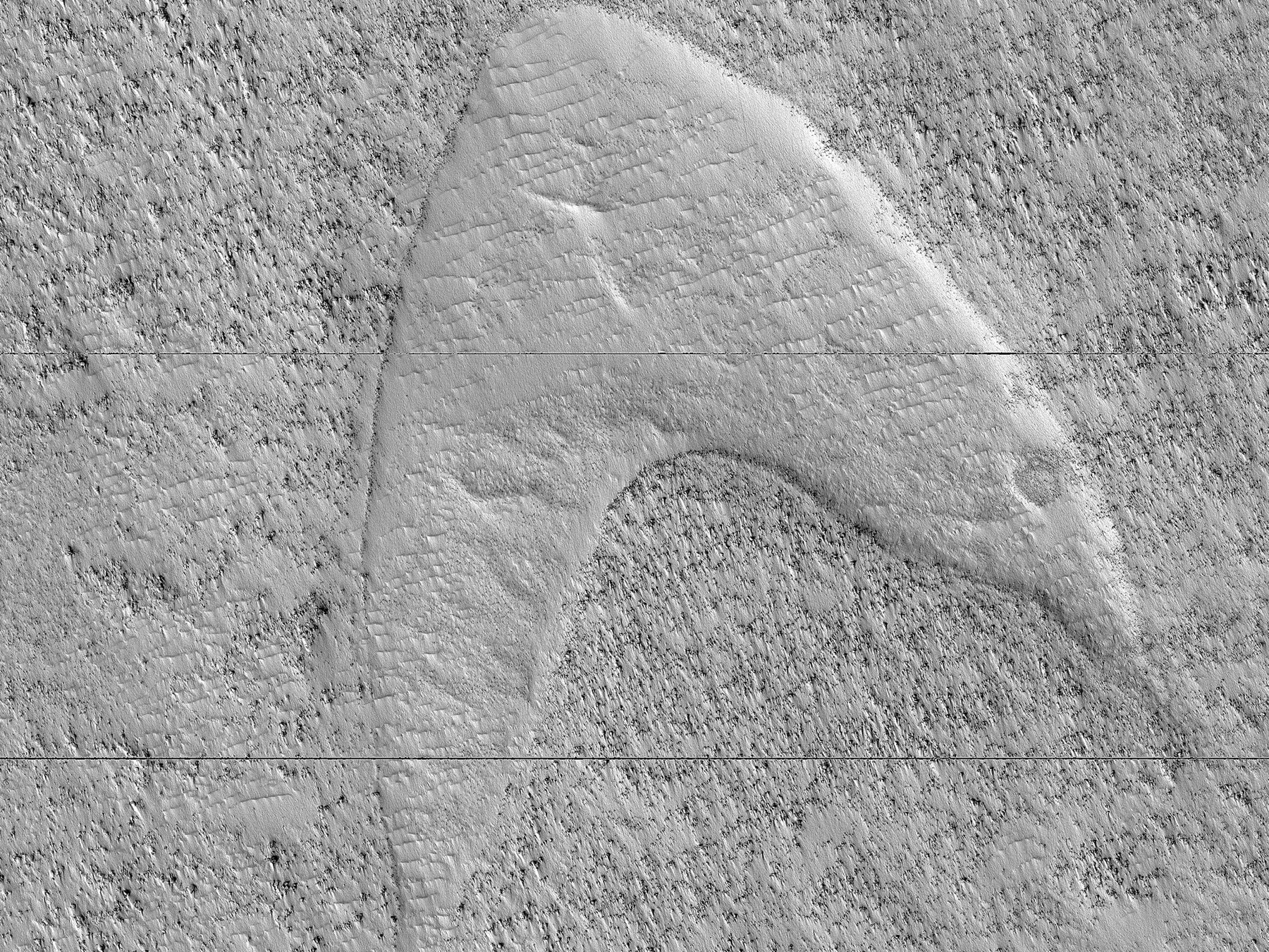 Star Trek on Mars: NASA spots Starfleet logo in dune footprint - Beam me down to Mars, Scotty.[1][2] References ↑ Kooser, Amanda (12 June 2019). "Star Trek on Mars: NASA spots Starfleet logo in dune footprint - Beam me down to Mars, Scotty.". CNET. Retrieved on 12 June 2019. ↑ Samson, Diane (16 June 2019). "William Shatner Takes Playful Jab At 'Star Wars' Over 'Starfleet' Symbol Found On Mars". . Retrieved on 16 June 2019. From JPL Photojournal: Long ago, there were large crescent-shaped (barchan) dunes that moved across this area, and at some point, there was an eruption. The lava flowed out over the plain and around the dunes, but not over them. The lava solidified, but these dunes still stuck up like islands. However, they were still just dunes, and the wind continued to blow. Eventually, the sand piles that were the dunes migrated away, leaving these "footprints" in the lava plain. These are also called "dune casts" and record the presence of dunes that were surrounded by lava.